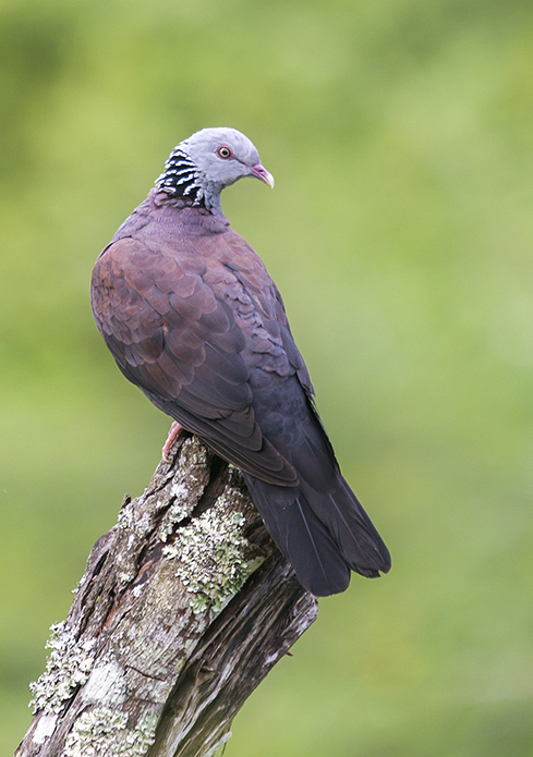 Nilgiri Wood Pigeon photograph from Munnar, Kerala